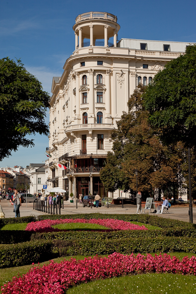 Bristol Hotel in Warsaw